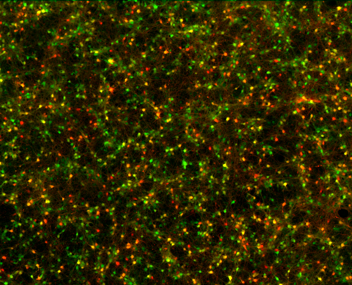 Fluorescence microscopy picture of cortical neurons in a primary culture from E18 rat, grown in supplemented Neurobasal Medium. On DIV 2, the cells were transduced with two adeno-associated viruses [AAV9.hSyn.TurboRFP and AAV9.CamKII0.4.eGFP] that express red and green fluorescent proteins under the controls of the Synapsind and the CamKII promoters. Picture is taken DIV 7.